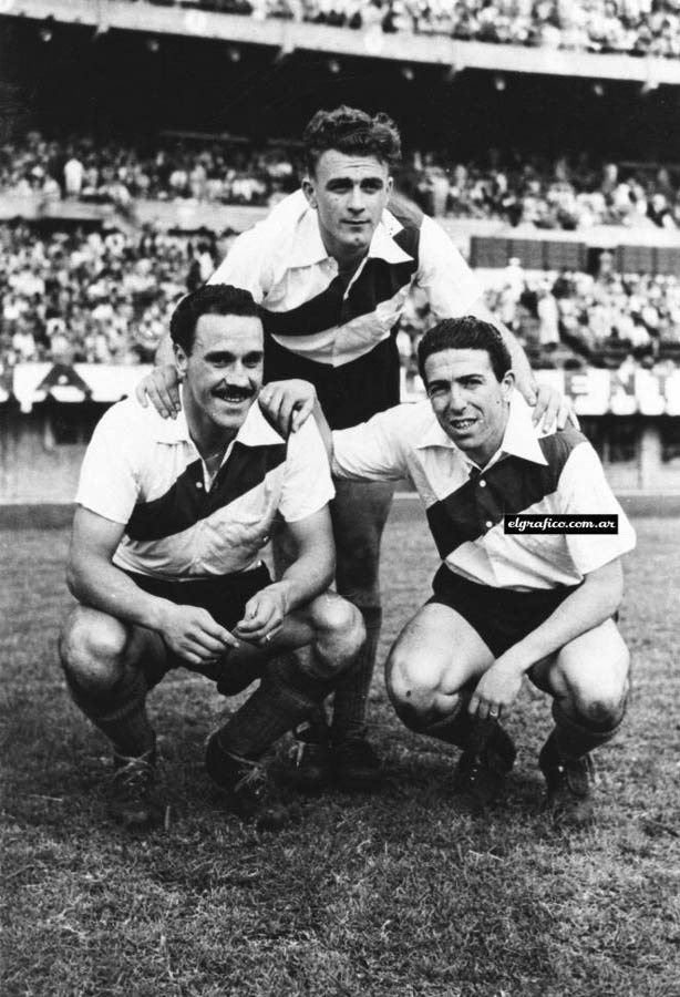 Moreno, Di Stéfano, Labruna.